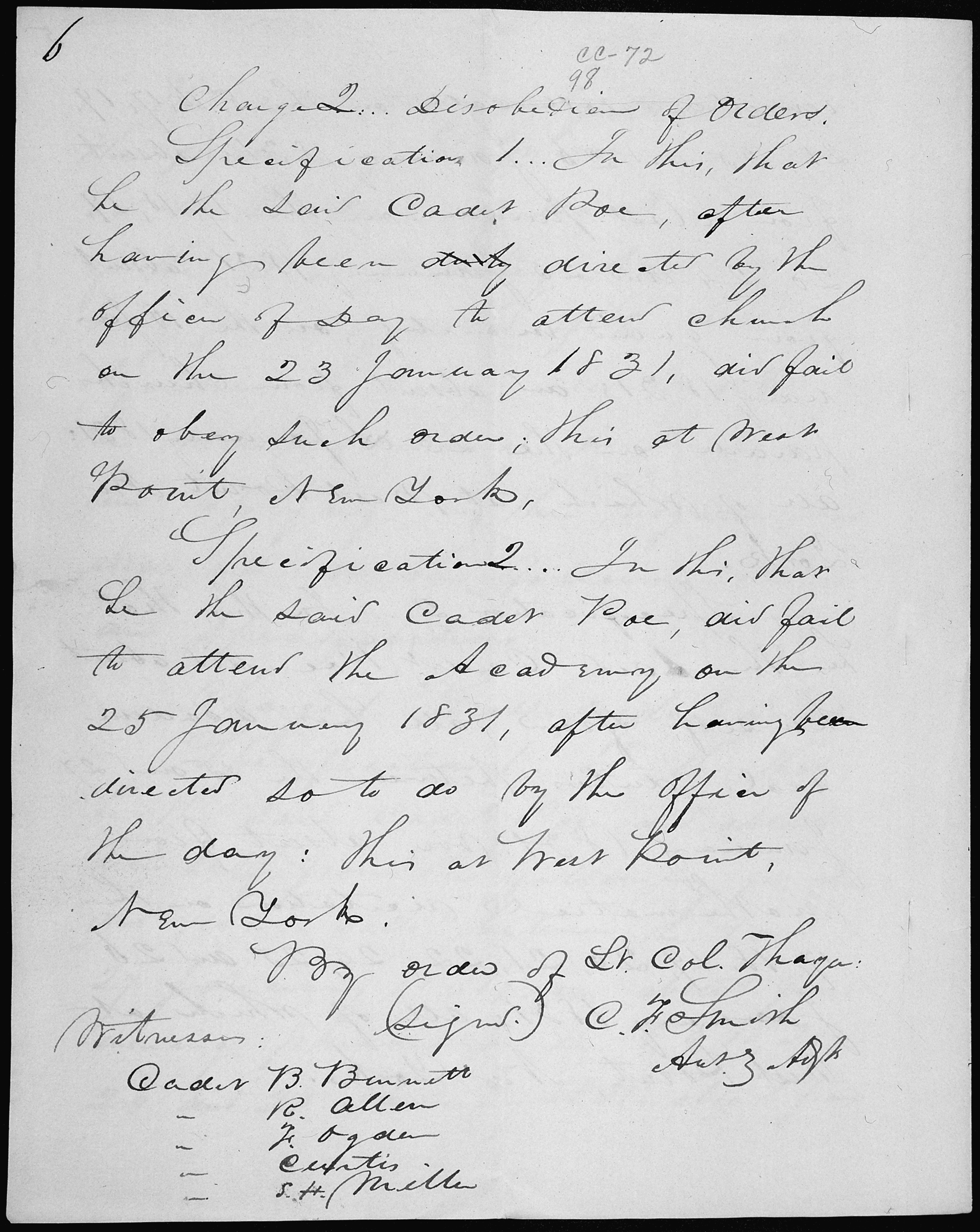 Scope and content: Poe arrived at West Point in June 1830 and submitted himself to the rigors and regimens of the Academy. There were long days filled with study and military drills. The food was poor, the quarters crowded and spartan, and discipline rigid. Poe did well academically but was soon undone by continuing quarrels with his foster father and money problems. During his first term, he decided to leave West Point but could not resign without the consent of his foster father. When Allan did not consent, Poe set out to get himself court-martialed and dismissed. He neglected his studies and failed to report for parades, roll-calls, and guard duty. On January 28, 1831, he was court-martialed. These papers from the trial list charges against Cadet Poe: gross neglect of duty and absence from his "academical duties;" on March 6, 1831, he was dismissed from West Point by sentence of court-martial. General notes: Exhibit History: "American Originals," December 1997 - December 1998, National Archives, Washington, DC, Exhibit No. 624.0196.